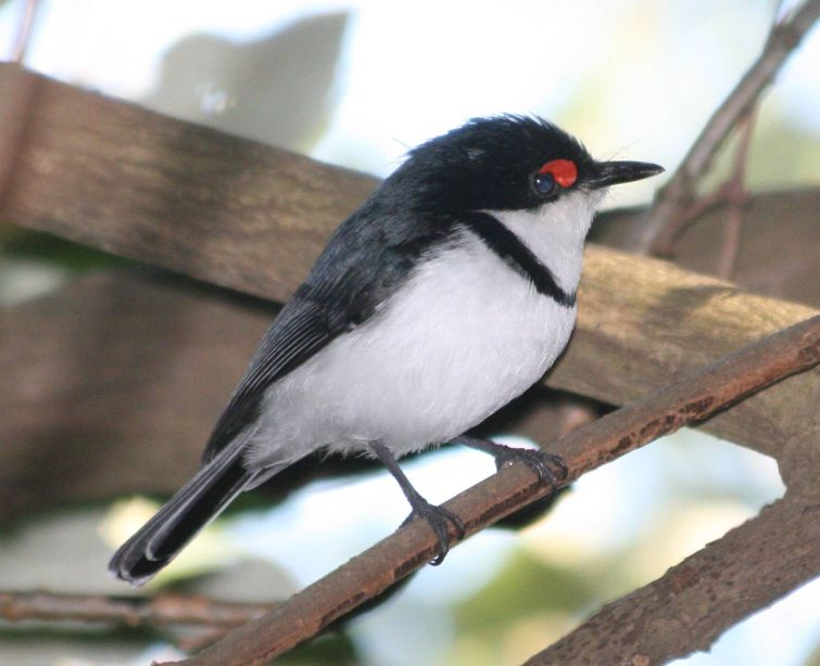 Male Black-throated Wattle-eye (Platysteira peltata) at Umhlanga, KwaZulu-Natal, South Africa.